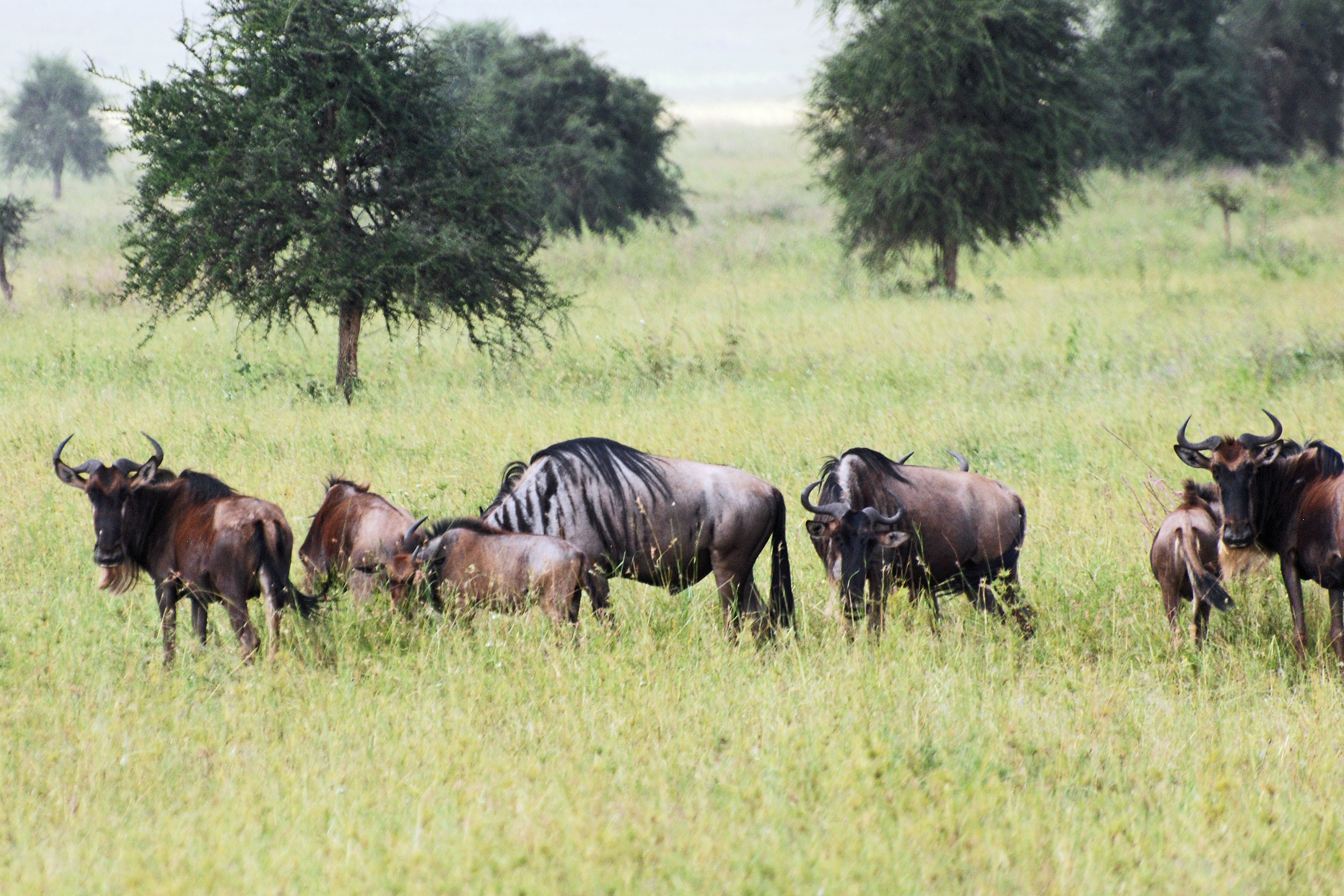 The blue Wildebeest (Connochaetes taurinus), also called the common wildebeest or the white-bearded wildebeest, is a large antelope and one of two species of wildebeest